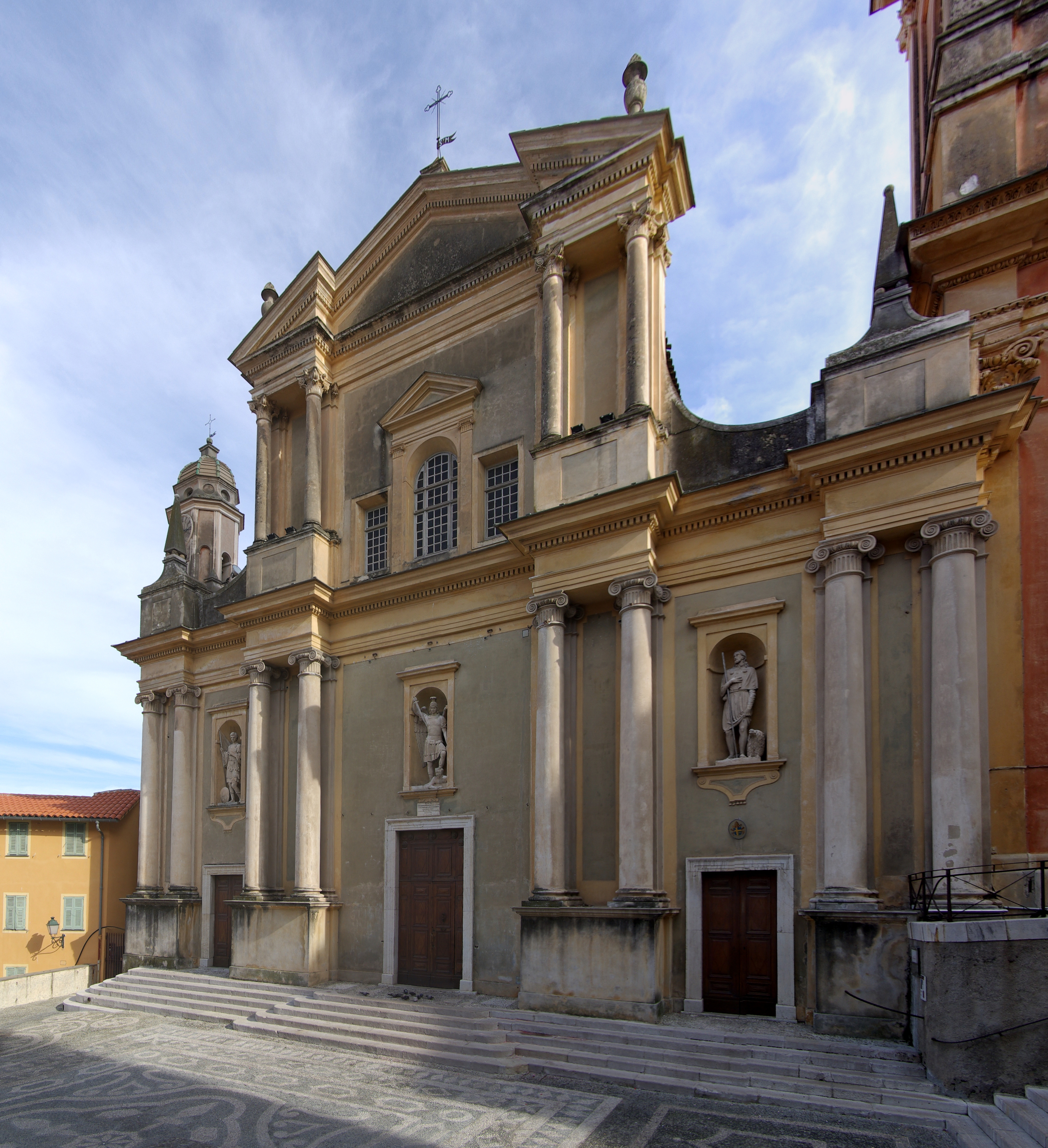 France, Menton, Basilique Saint-Michel Archange